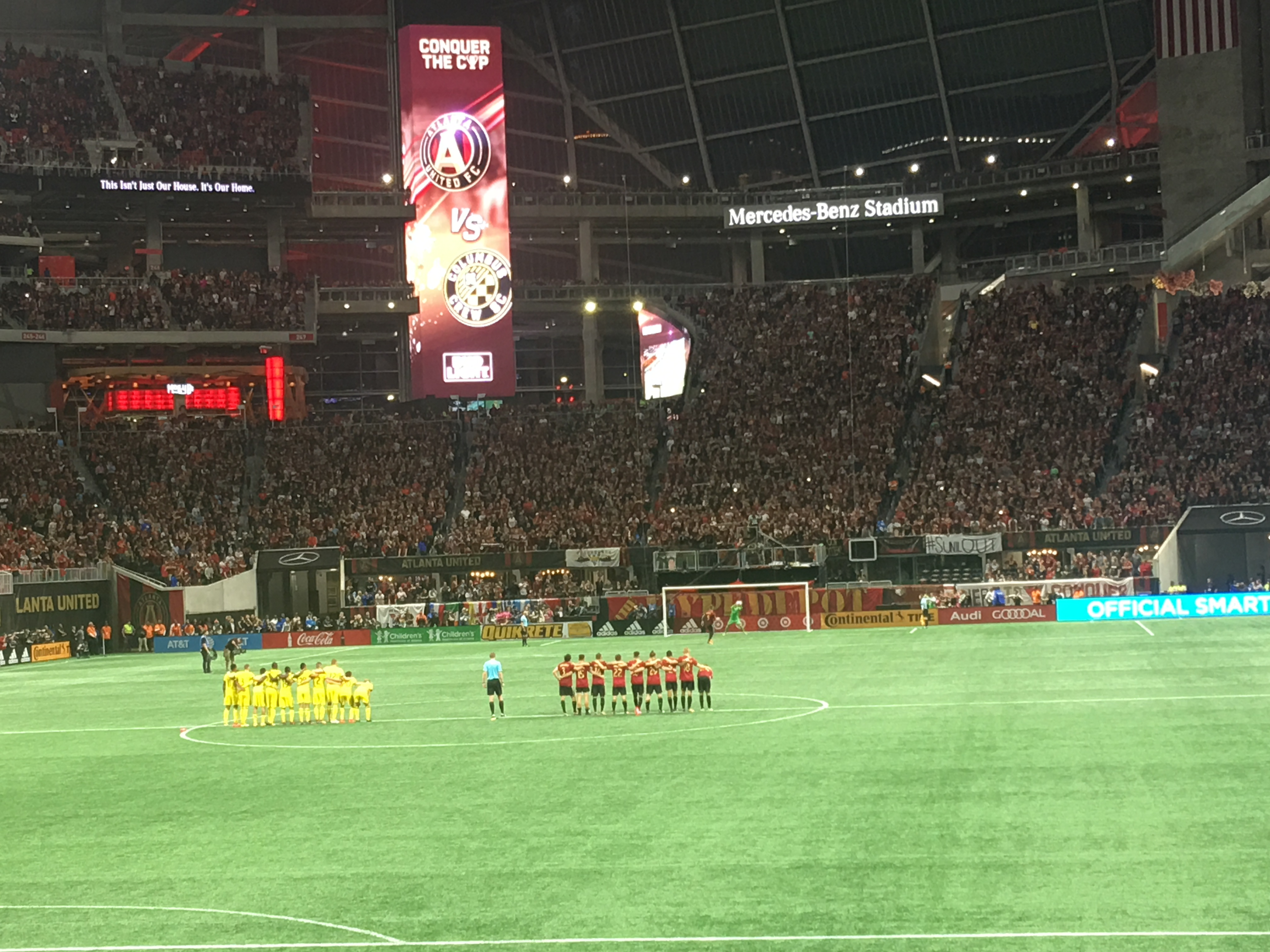 2017-10-26 - Atlanta United vs Columbus Crew - shootout